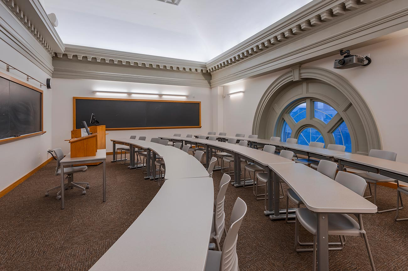 A classroom in Lathrop Hall, one of the academic buildings on Colgate University's campus. Lathrop Hall houses the departments of English, writing and rhetoric, the Core Program, University Studies Division, and the Writing and Speaking Center. Originally built in 1905, Lathrop Hall was renovated in 2013, achieving LEED certification at this time.